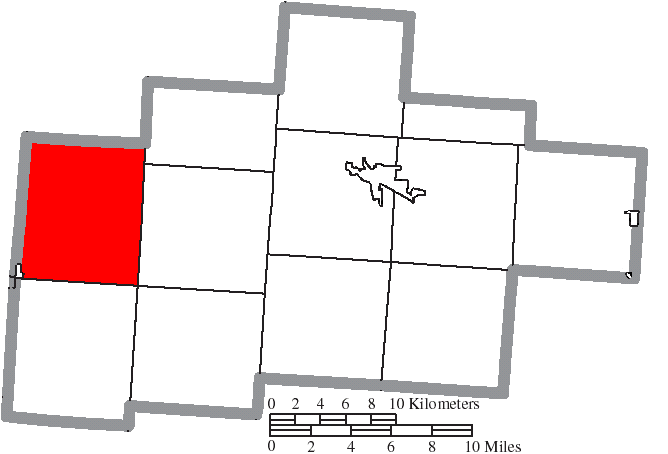 Map of the municipal and township boundaries of Hocking County, Ohio, United States, as of the 2000 census, with the location of Perry Township highlighted. Township borders are shown only in unincorporated areas in order to differentiate incorporated and unincorporated areas more clearly.